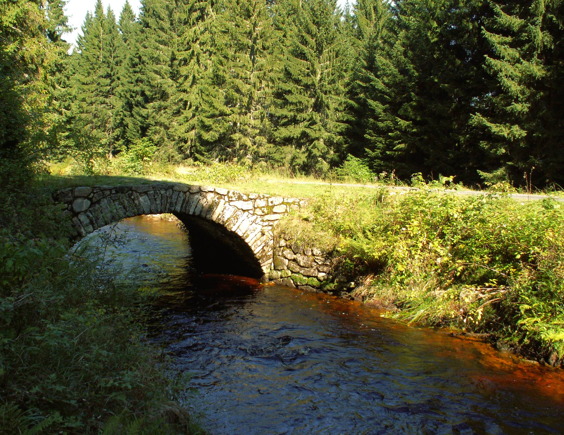 The canal Vchynicko Tetovský kanál in the Šumava Mts., Czech republic